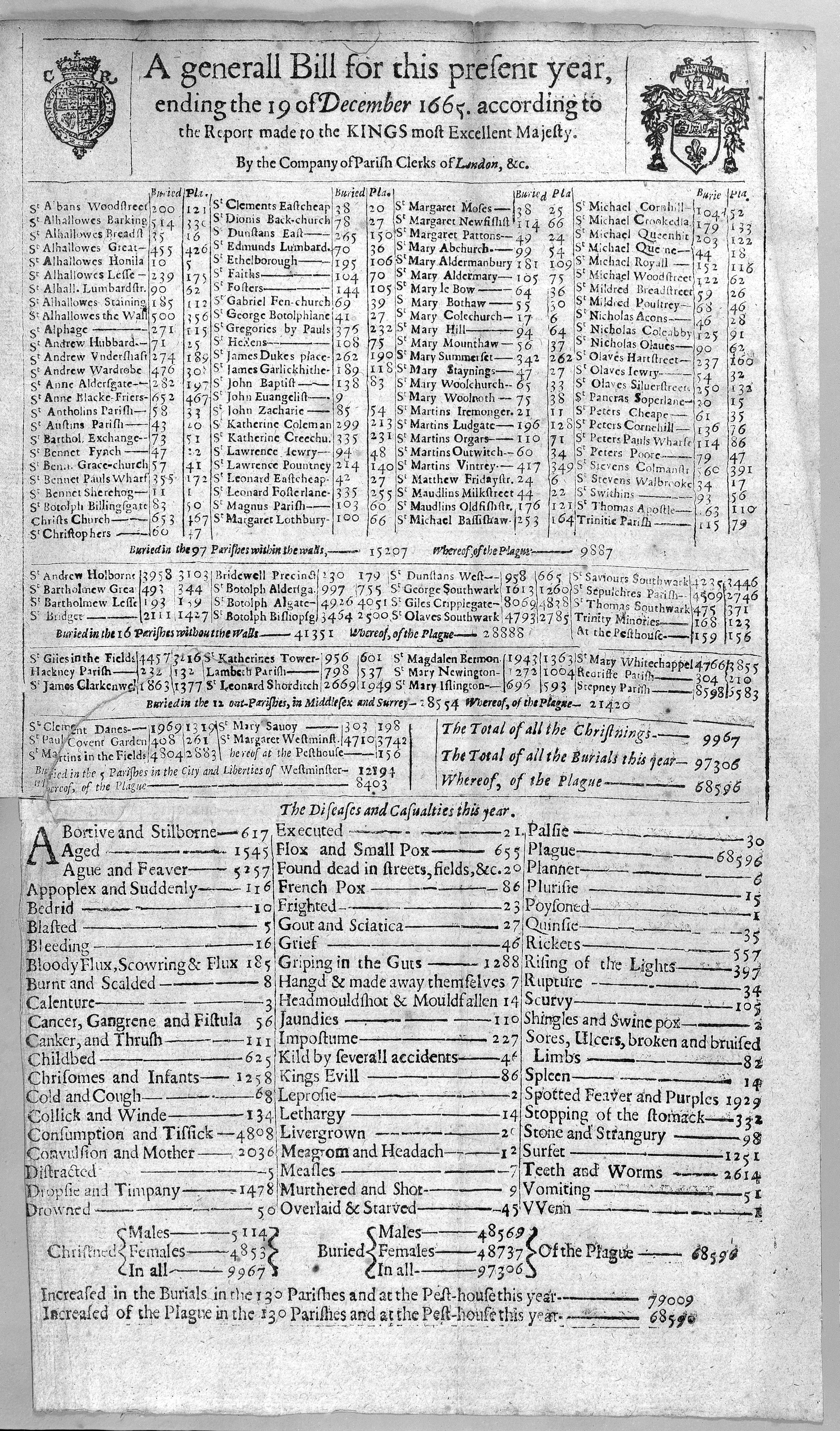 A general bill for the year 1665 Rare Books Keywords: Great Plague